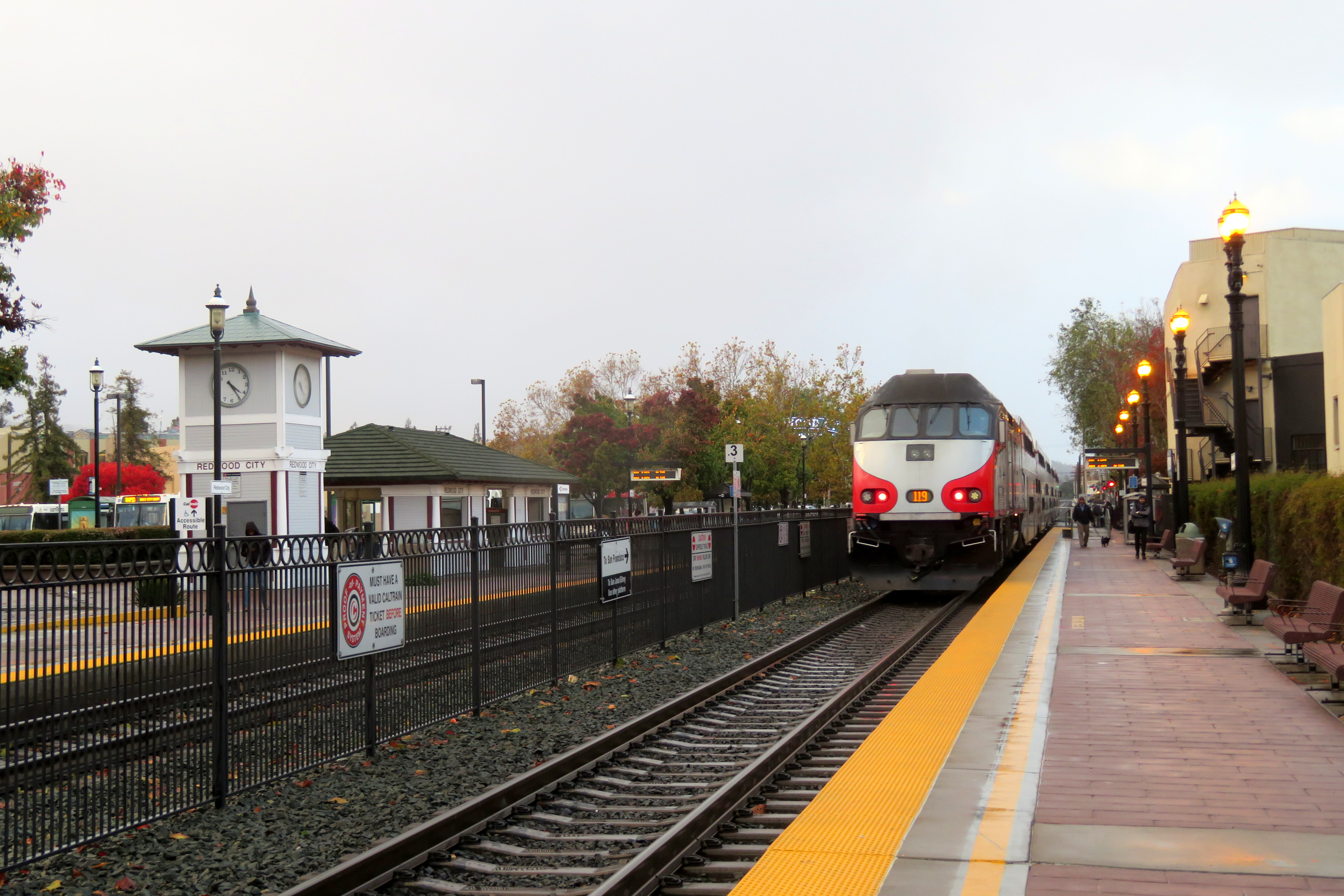 A northbound train departing Redwood City station in November 2018